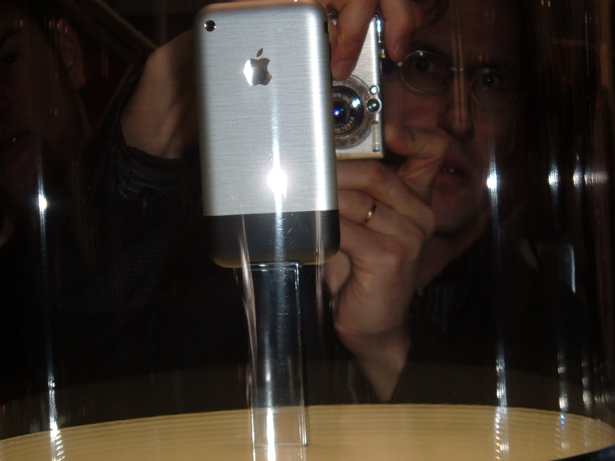 First public showing of the Apple iPhone at the 2007 MacWorld show in San Fransisco. Note: time is EST. See File:Albert S. Samuels street clock SFO.agr.jpg taken same day with same camera for validation of camera time, about 15 min slow if Samuels clock was accurate.